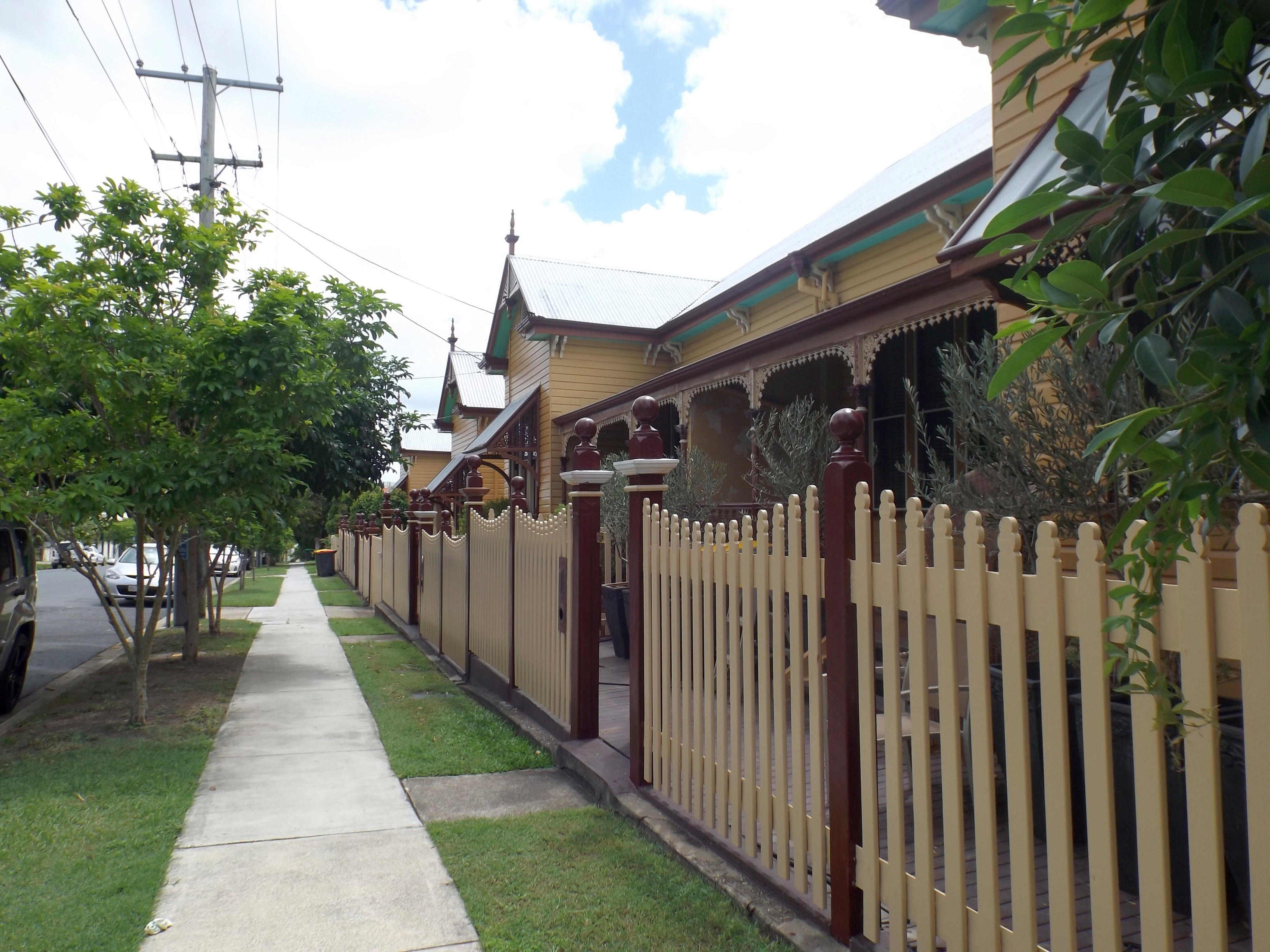 Photo of Brighton Terrace and footpath at West End, Brisbane, Queensland, Australia.